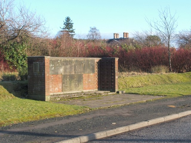 Inscriptions commemorating two Royal Visits. This brick structure stands alongside a road in the Vale of Leven Industrial Estate (also sometimes called Strathleven Industrial Estate); now that the adjacent Westclox factory is long gone (the estate is now occupied by other companies), the location of this structure does not seem very prominent. As can be seen in this photograph, there are two inscribed tablets mounted on its wall. The text on the wider upper tablet reads as follows: "Her Majesty Queen Elizabeth II visited this estate 16th April 1953" The smaller tablet underneath bears the inscription: "The Queen and The Duke of Edinburgh accompanied by The Princess Anne visited this estate 29th June 1971" As was related to me many years ago by a family member who worked in the Westclox factory, Neil Armstrong and Patrick Moore also paid a visit to the estate (in 1976); no plaque records that occasion, but it was described as a Space Seminar, although it was intended to promote the introduction of the (then new) technology of using quartz crystals to regulate electronic oscillators in time-pieces. For further material relating to the visits of 1971 and 1976, The initials "S I E" (for Strathleven Industrial Estate) are inscribed on the outside of this brick structure, at both ends. The rooftop visible in the background of the photograph is that of Strathleven House: 1058768.